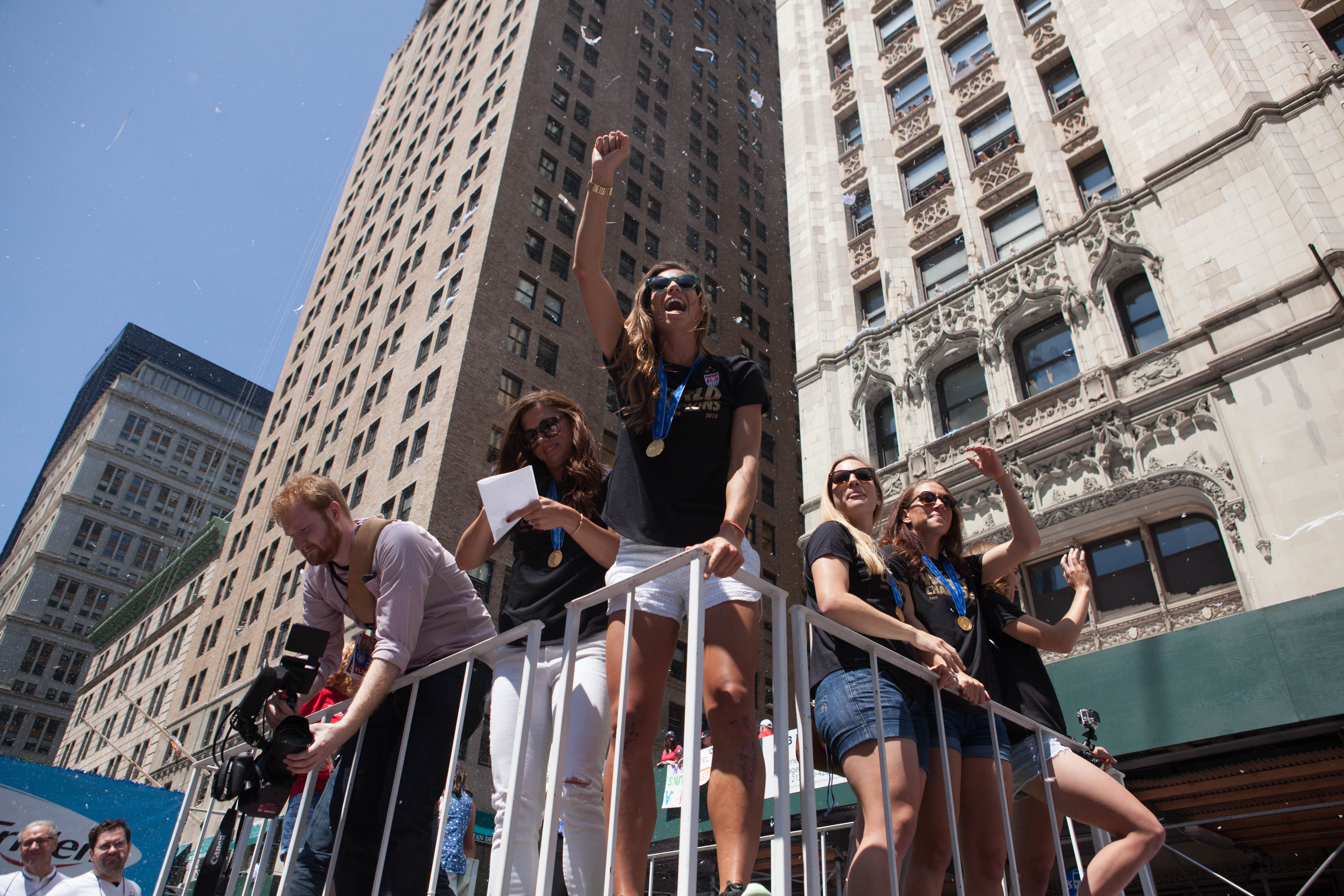 The United States Women's Soccer Team Ticker-Tape Parade New York City